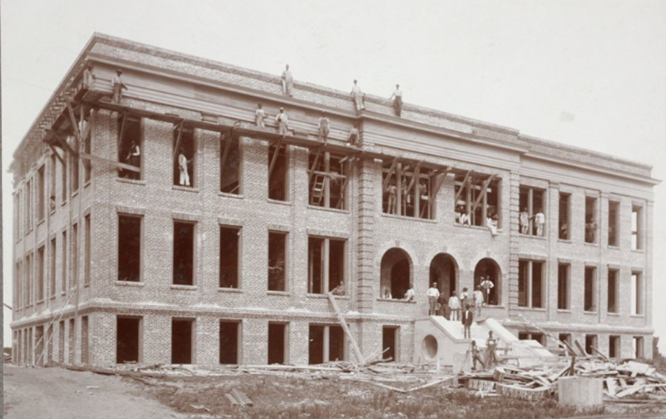 The new school for black residents of Charleston, South Carolina, designed by Todd & Benson, is shown here under construction in 1910.